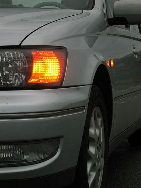 Vehicle with its left directional signal activated. Front and side turn signals are visibly illuminated.